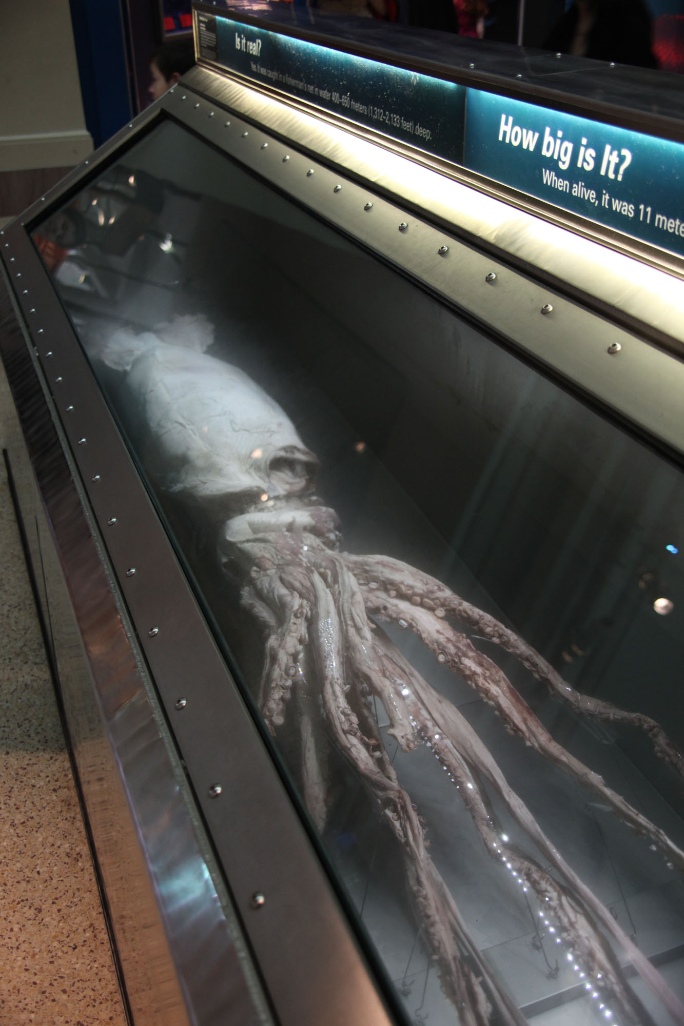 Atlantic Giant Squid (Architeuthis dux) at the Sant Hall of Oceans at the Smithsonian Museum of Natural History in Washington, D.C. This specimen is a female caught in July 2005 off northern Spain. She is about 36 feet (10.9 m) long, which includes tentacles that are 22 feet (6.7 m) long. The squid weighs 330 pounds (149.6 kg). The giant squid dwells in the deep ocean. Scientists know so little about them that we think there may be as many as eight species -- or as few as one. The maximum size is probably 42.5 feet (13 m), with males being smaller than for females (only about 33 feet, or 10 m). Giant squid have enormous eyes, and complex brains, and float by circulating ammonium chloride throughout their bodies (which is lighter than seawater). This makes their flesh taste like sour piss. Bleah! Giant squid feed on fish and other squid. They reach out with their tentacles, and latch on to prey with the large paddle-like ends. They then draw the prey to their mouth, there it is chopped by the beak, torn to shreds by their tongue (which has teeth-like nodules on it), and digest it. Juveniles are probably preyed on by sharks, but the only predator known to eat adult giant squid are sperm whales. Giant squid occur nearly all over the world, but tend to be found on continental shelves and in temperate oceans (being rare at the poles and the tropics). They probably live at a depth of 1,000 to 3,300 feet (300 to 1,000 m).